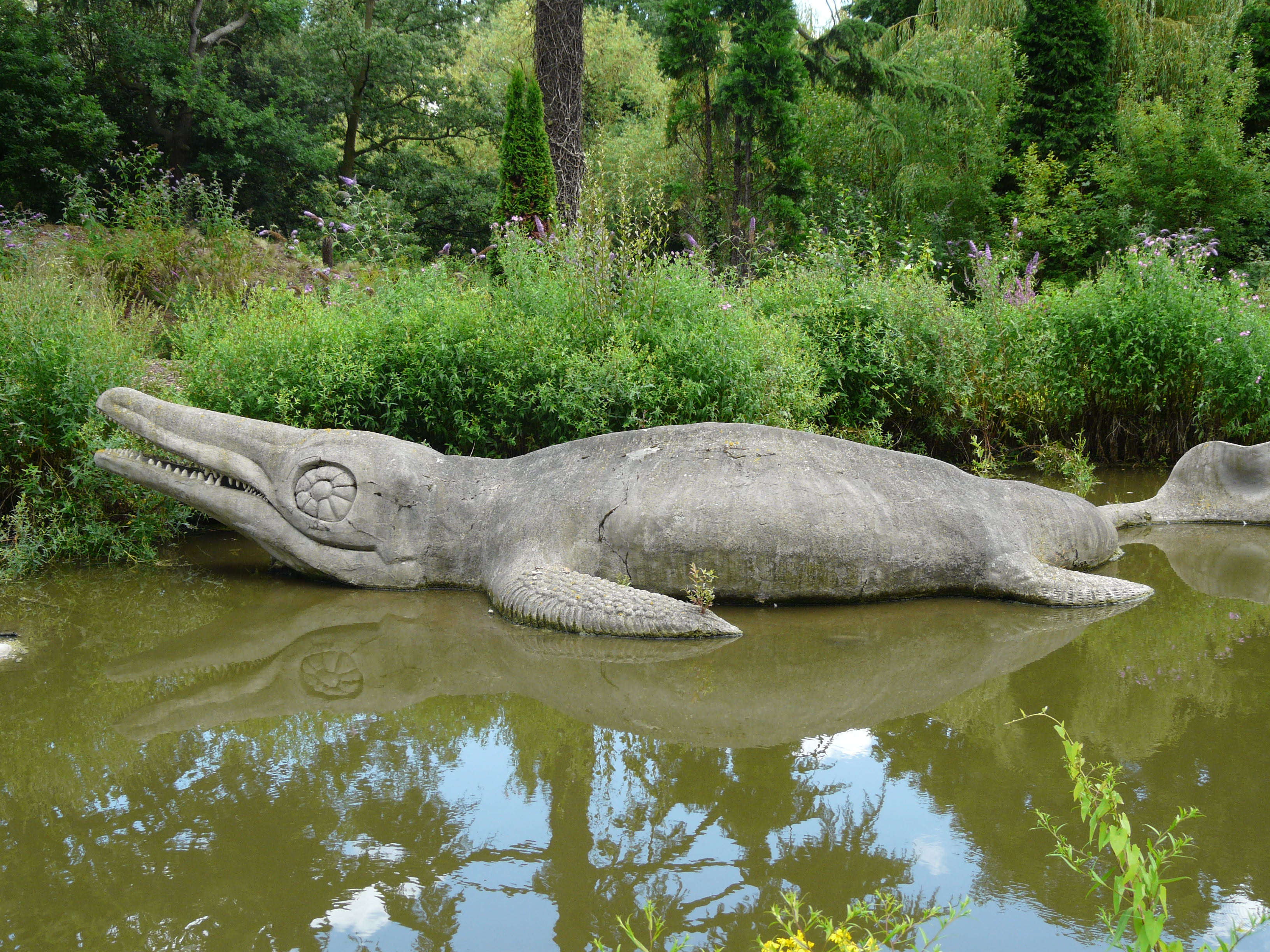 Crystal Palace Dinosaur Park, Ichthyosaurus